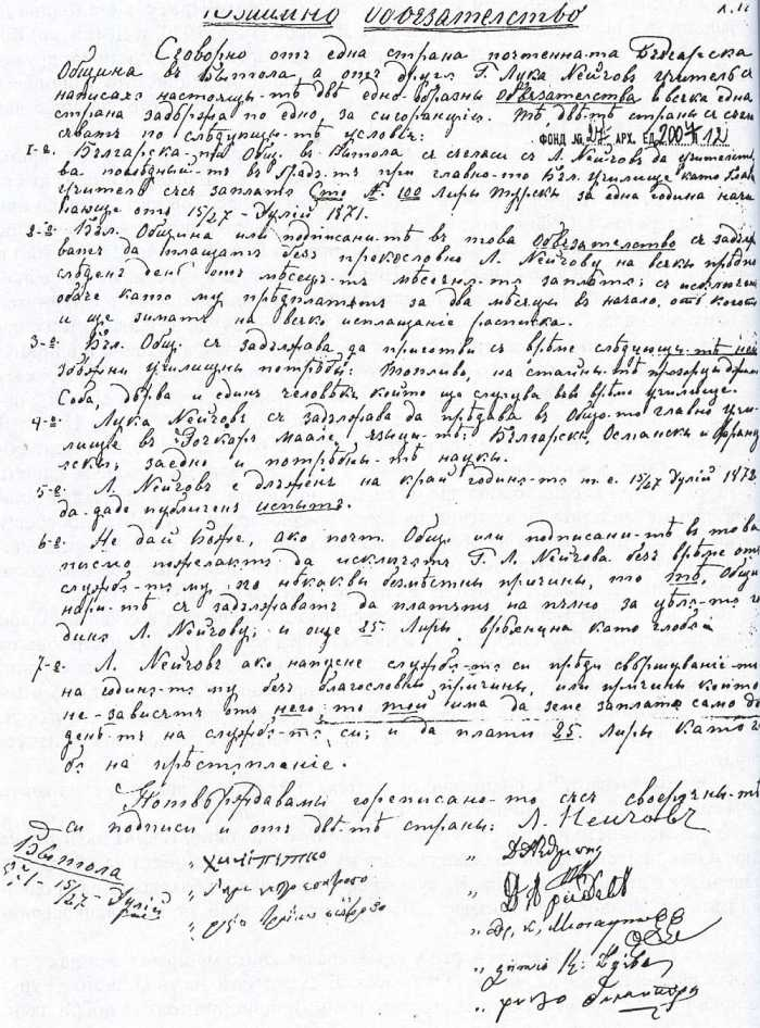 Contract between Luka_Neychov and Bitolya Bulgarian Municipality